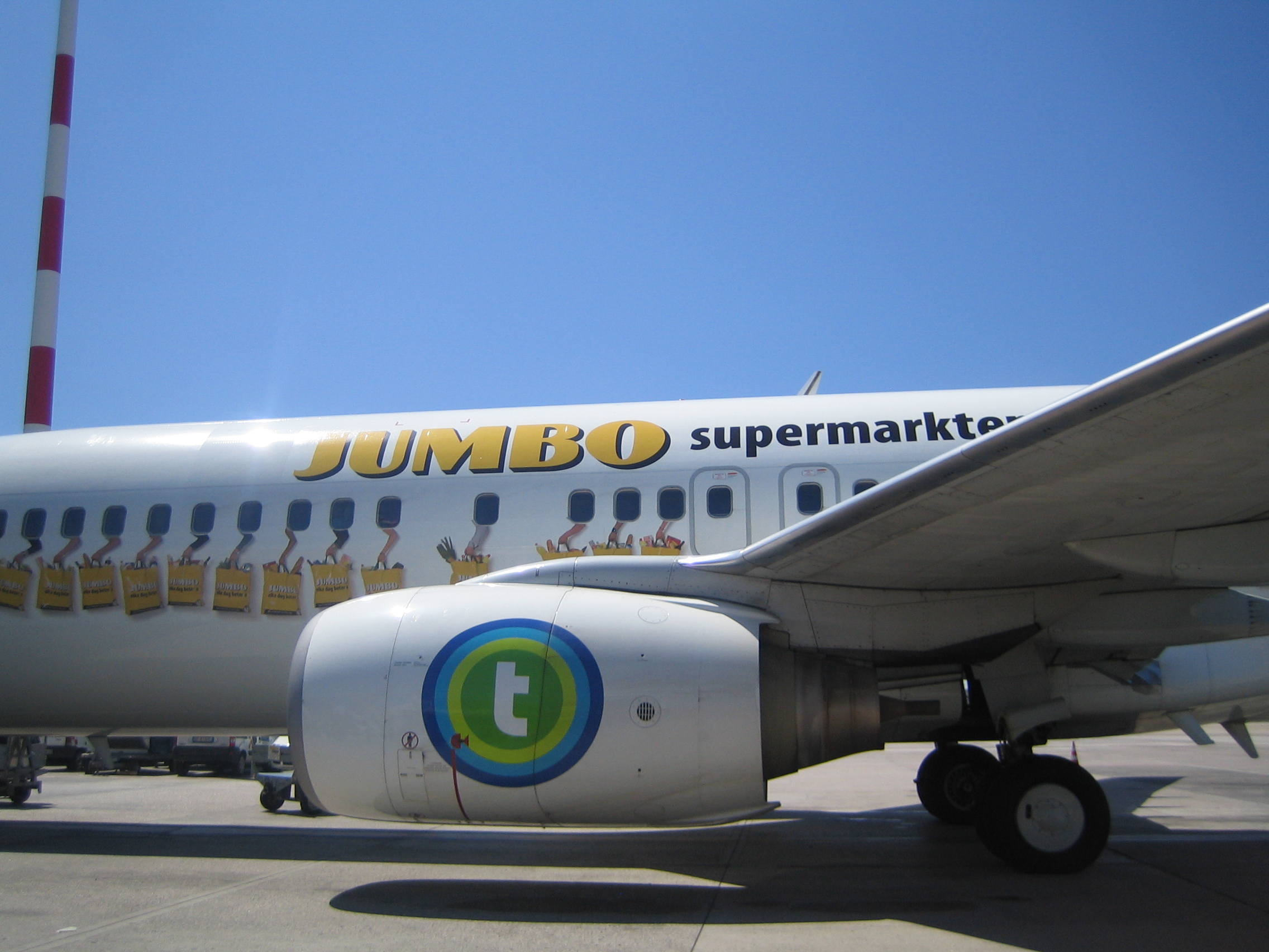 An airplane sponsored by Dutch supermarket Jumbo.